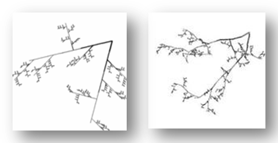 Statistical L-systems branching fractals with a theoretical fractal dimension of ln4/ln3 illustrates straight and tortuous branching.